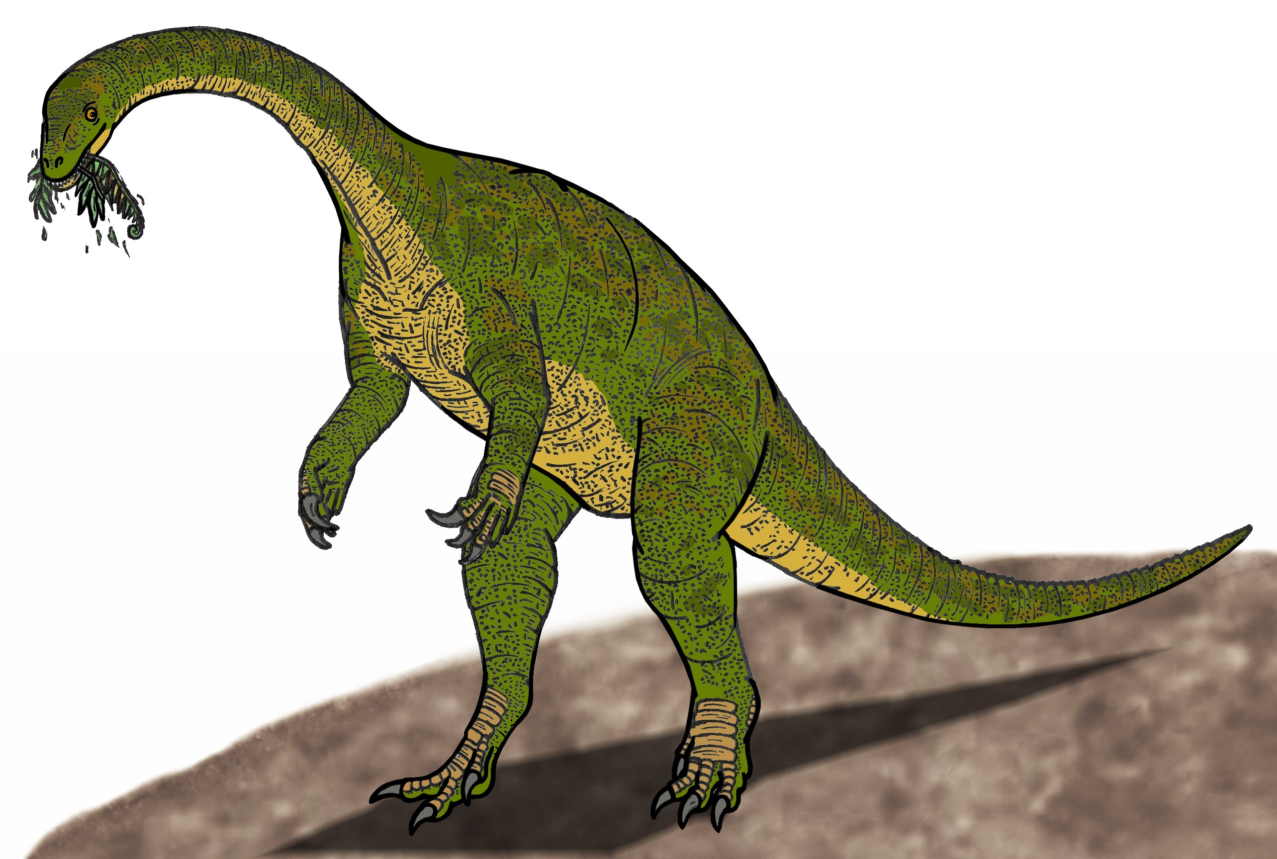 Jingshanosaurus, pencil drawing. Based on skeletons seen here: [1] and [2].